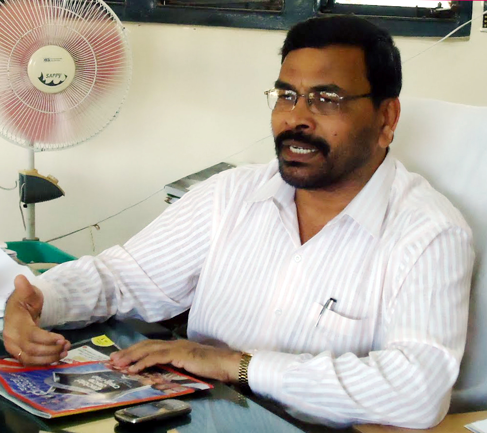 Professor and Folklorist